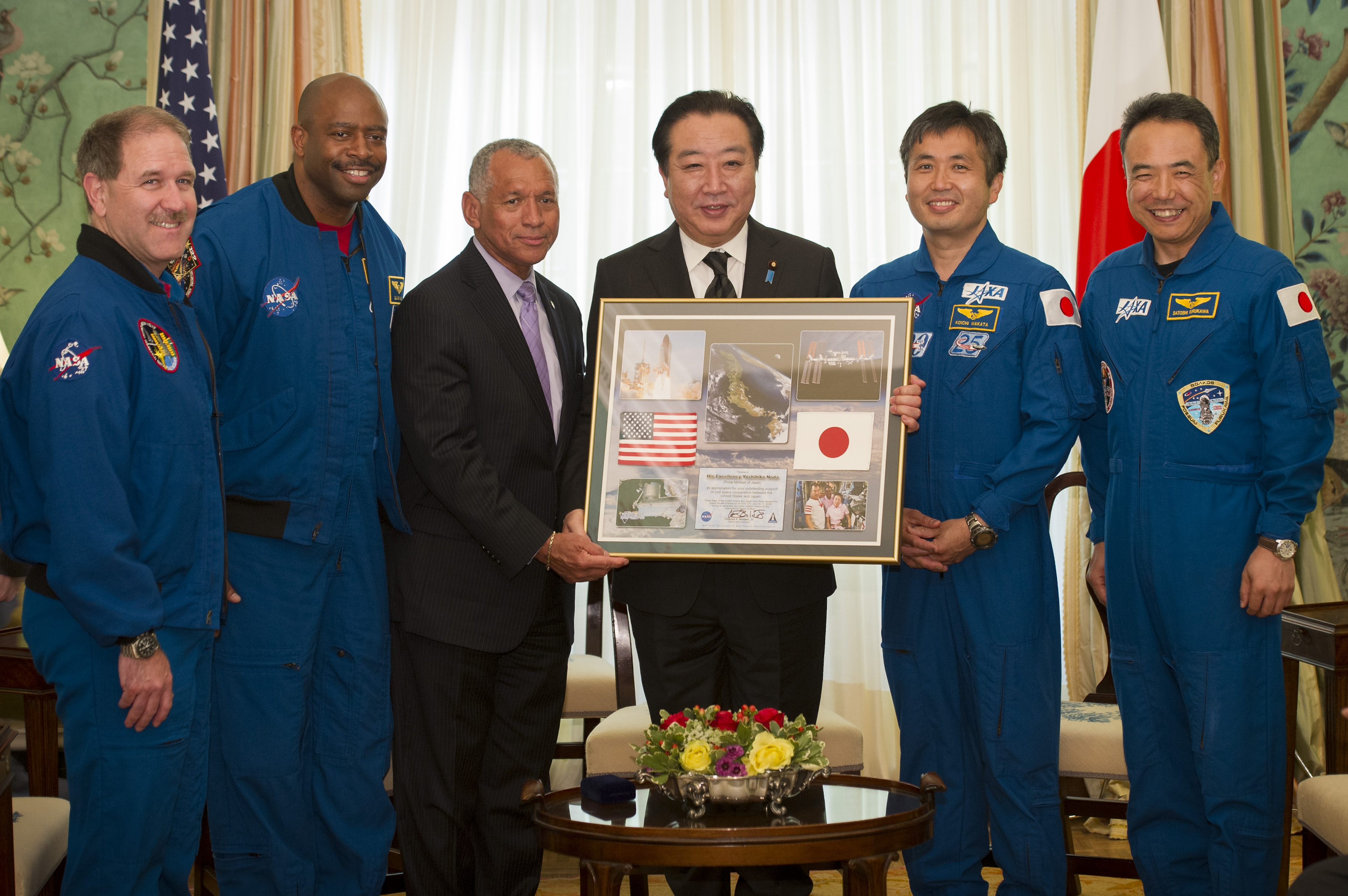 Japanese Prime Minister Yoshihiko Noda, fourth from left, accepts a montage from NASA Administrator Charles Bolden, third from left, during a meeting at the Blair House as Associate Administrator for Science and former astronaut John Grunsfeld, left, Associate Administrator for Education and former astronaut Leland Melvin, second from left, and JAXA (Japan Aerospace Exploration Agency) astronauts Koichi Wakata and Satoshi Furukawa, right, look on, Monday, April 30, 2012, in Washington. Image Credit: NASA/Bill Ingalls